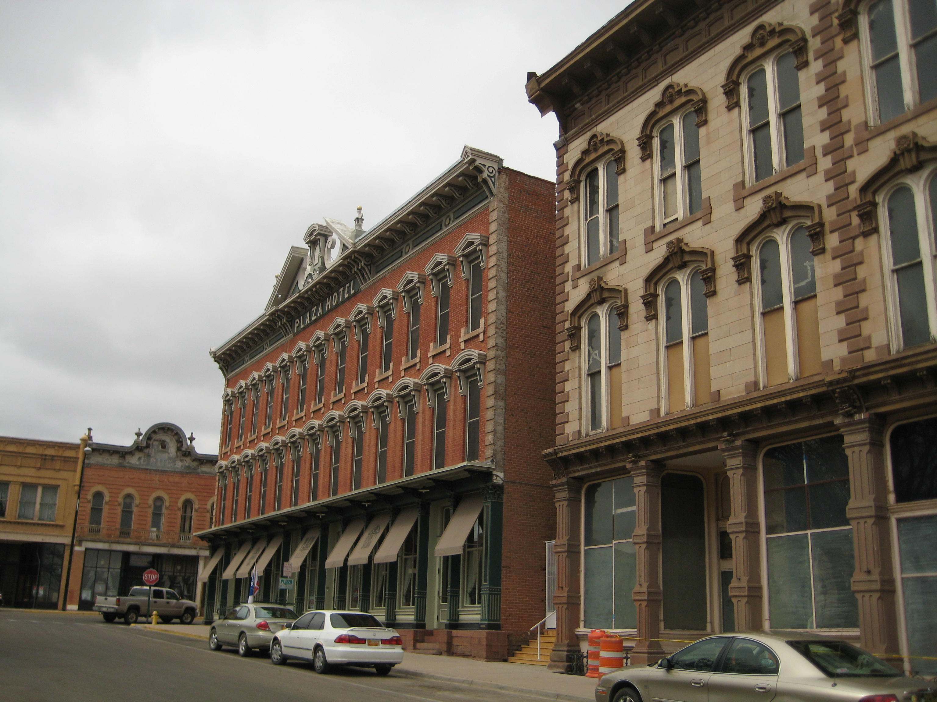 The Plaza Hotel (built 1882) in Las Vegas, New Mexico, USA